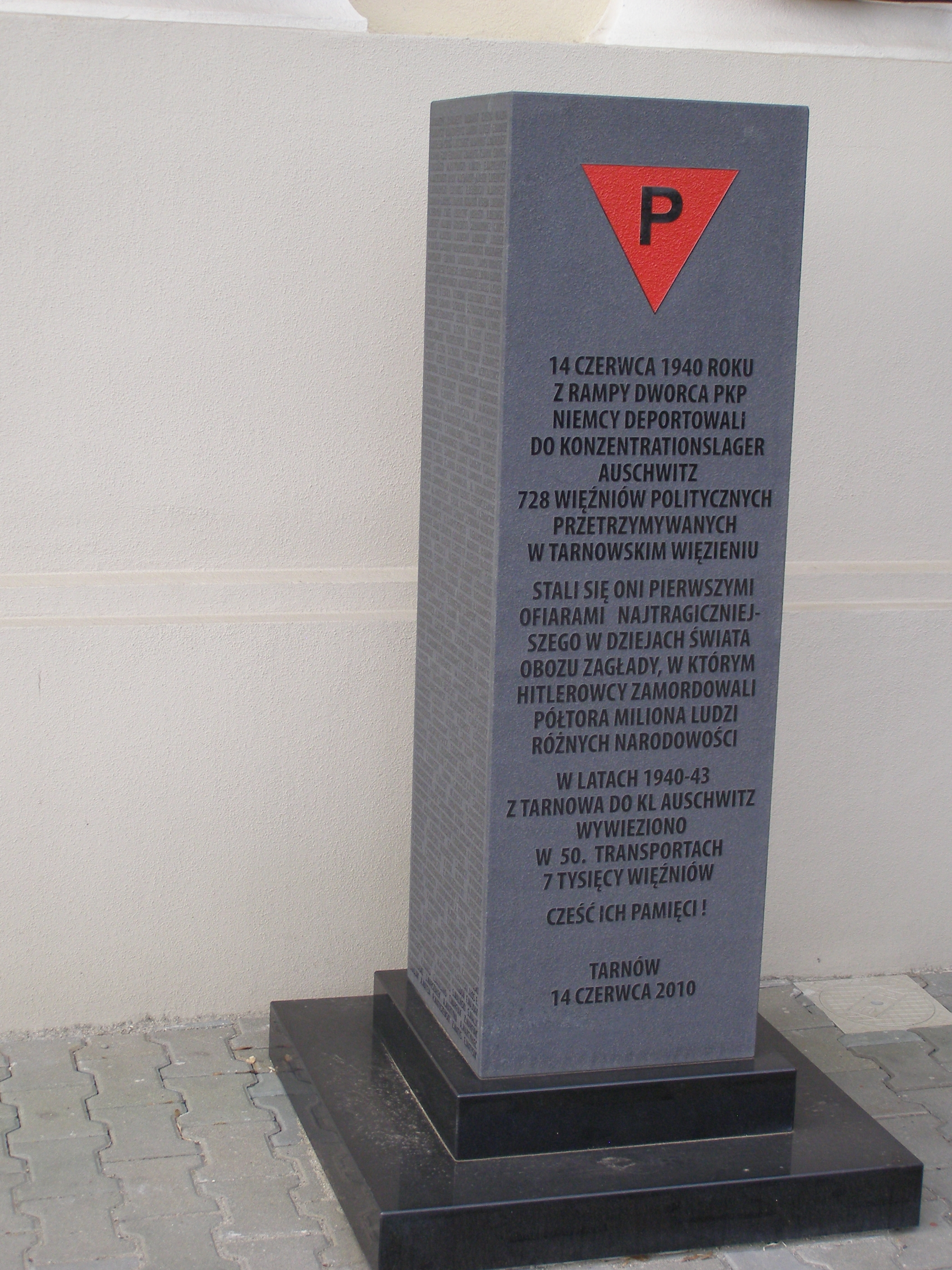 Tarnów - the memorial at the railway station, commemorating the first transport of political prisoners to KL Auschwitz on June 14, 1940.